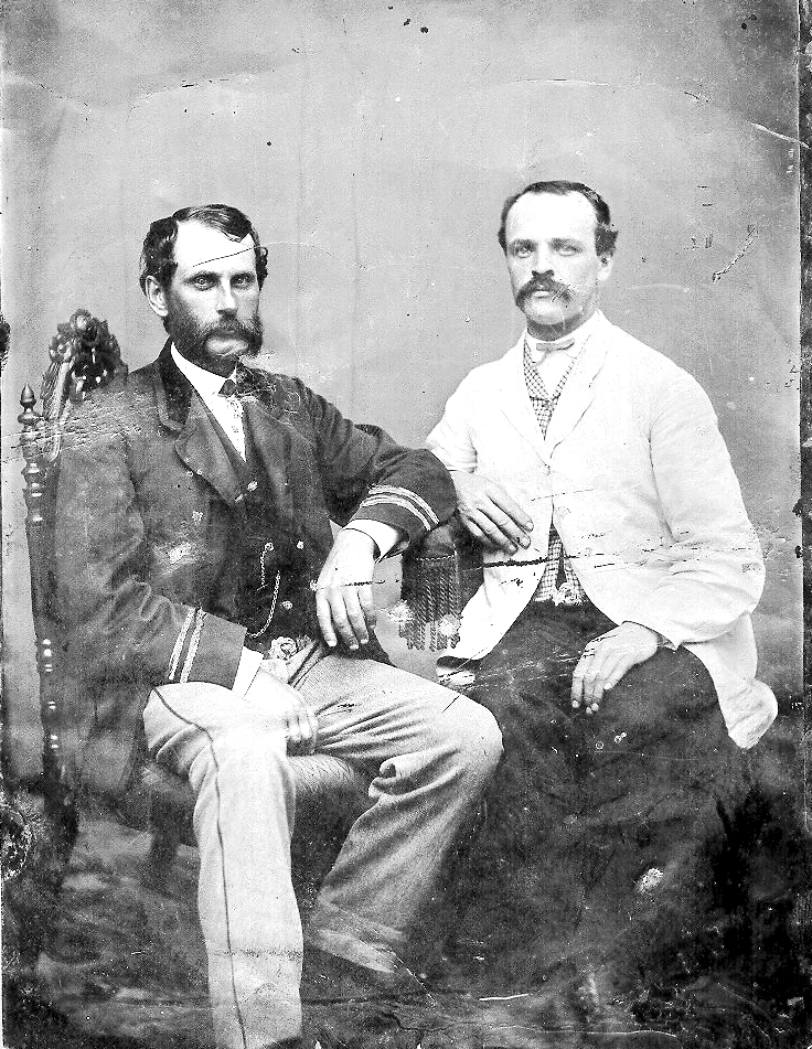 The Bulloch Brothers, James (left) and Irvine (right)